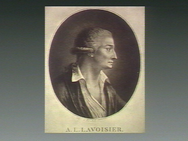 R. Burgess, Portraits of doctors & scientists in the Wellcome Institute, London Antoine Laurent Lavoisier. Stipple engraving by J. F. Bolt, 1796, after Brea. 1 print R. Burgess, Portraits of doctors & scientists in the Wellcome Institute, London1973, no. 1705.14 Iconographic Collections Keywords: portrait prints; stipple prints